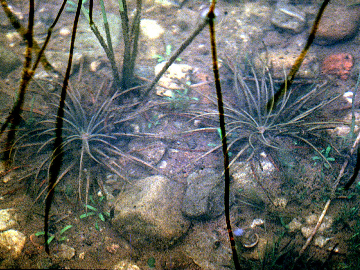 Isoetes lacustris L. - lake quillwort